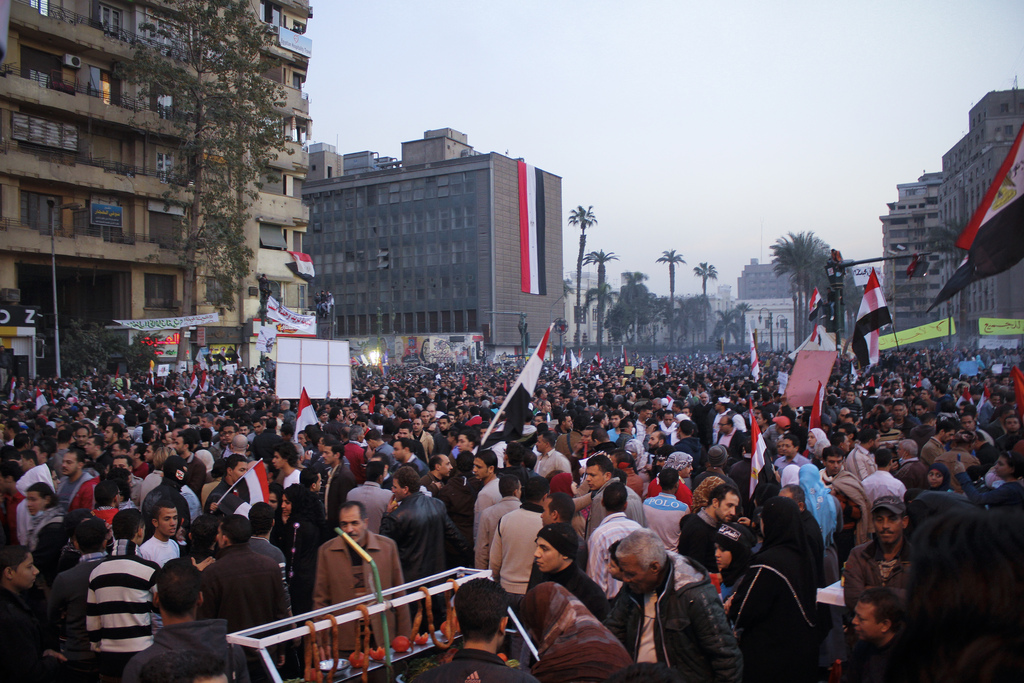 Cairo's Tahrir Square on 25 January 2013.